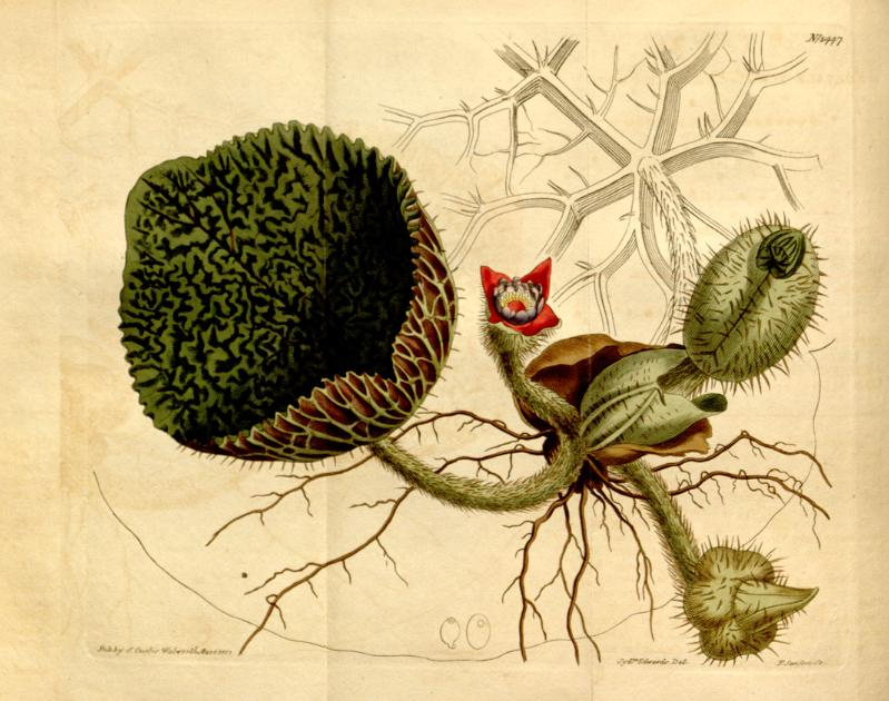 Illustration of Euryale ferox